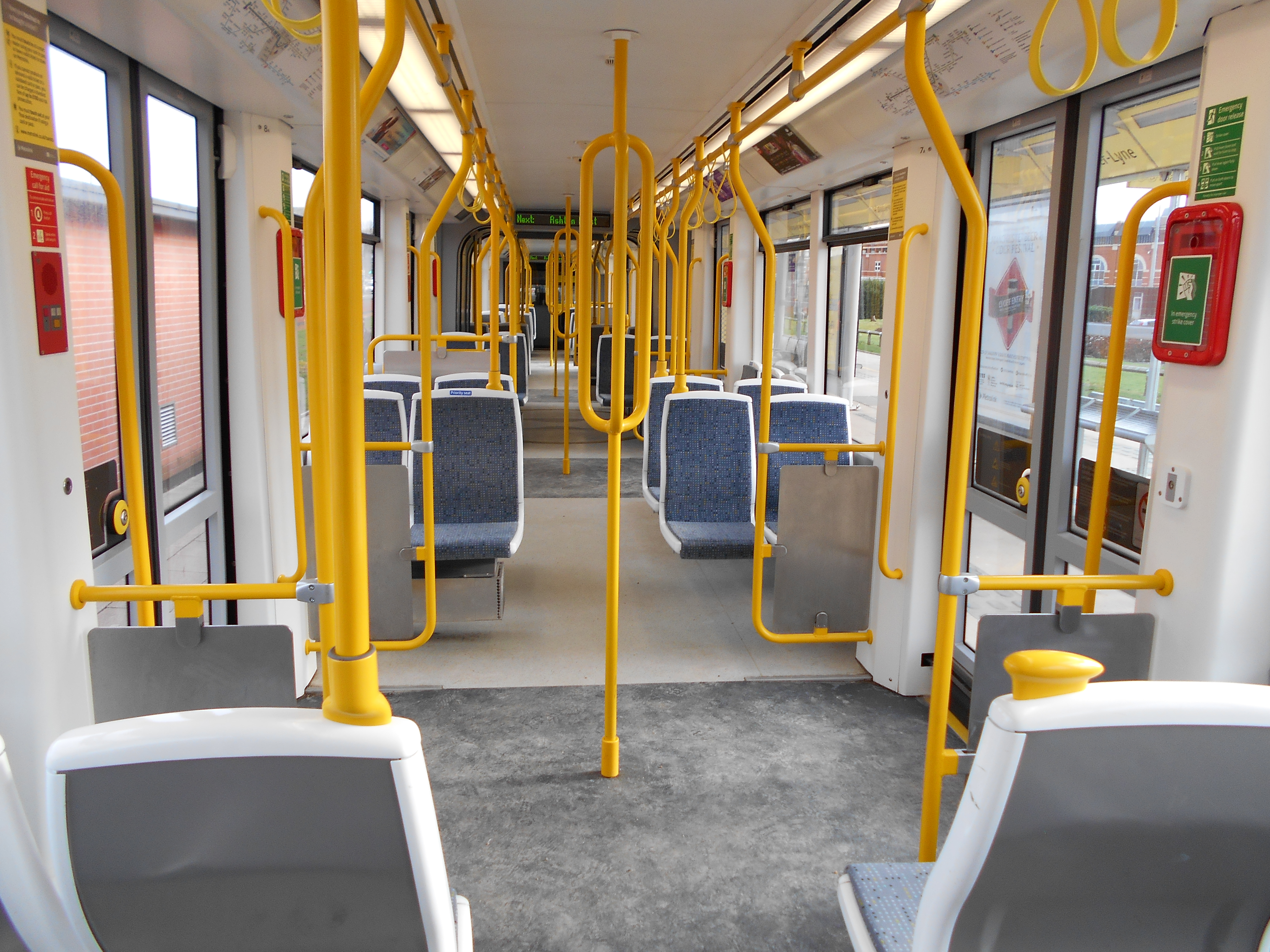 Interior of M5000 tram.